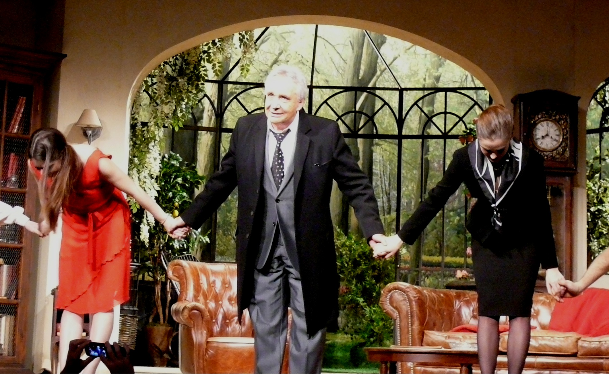 Actor Michel Sardou between Florence Coste and Katia Miran on the Comédie des Champs-Elysées stage, in Paris, for the play Si on recommençait, written by Eric-Emmanuel Schmitt